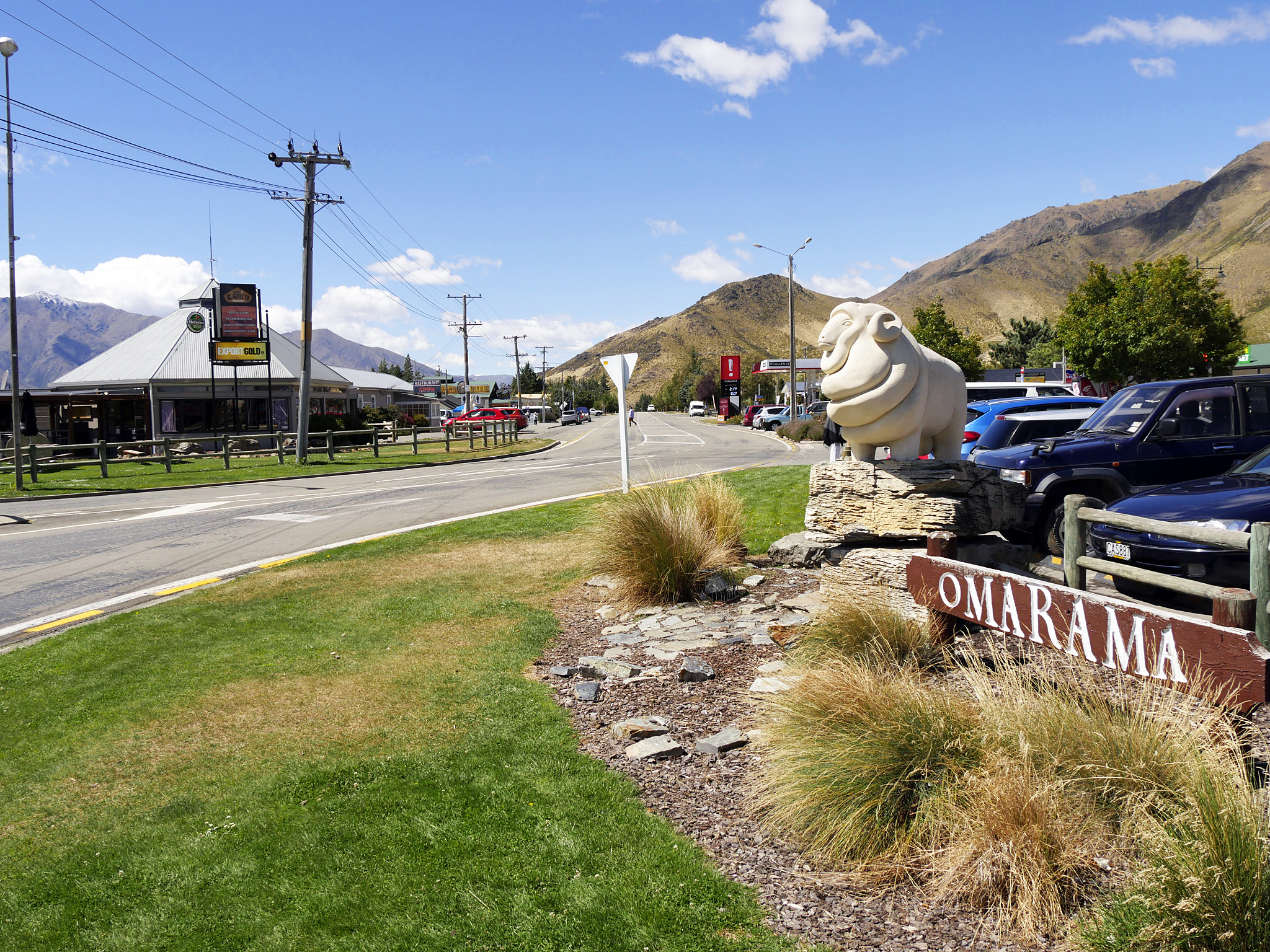 Omarama, Chain Hills HWY (SH 83), Waitaki District, Canterbury Region, South Island, New Zealand